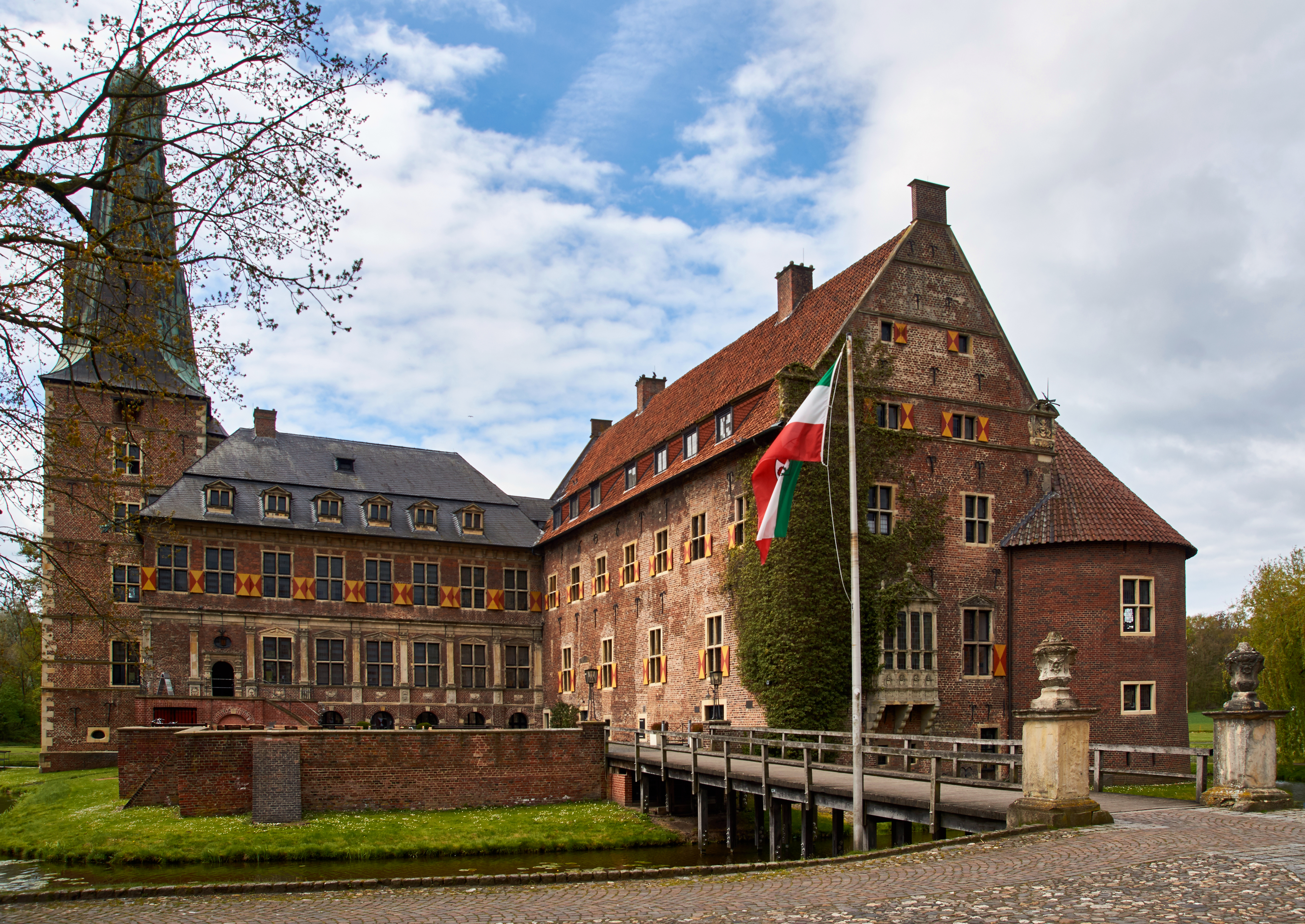 Raesfeld Castle, Raesfeld, district of Borken, North Rhine-Westphalia, Germany. This is a photograph of an architectural monument.